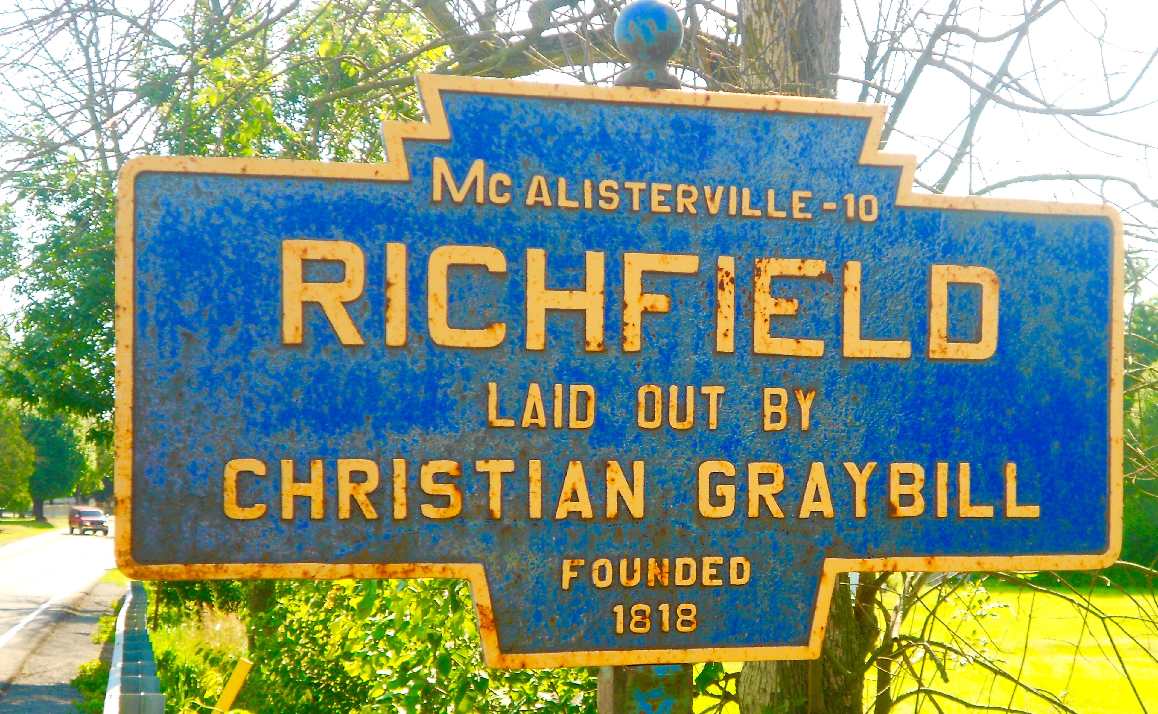 Keystone marker for Richfield, Pennsylvania in Juniata County. It also marks the boundary with Snyder County.